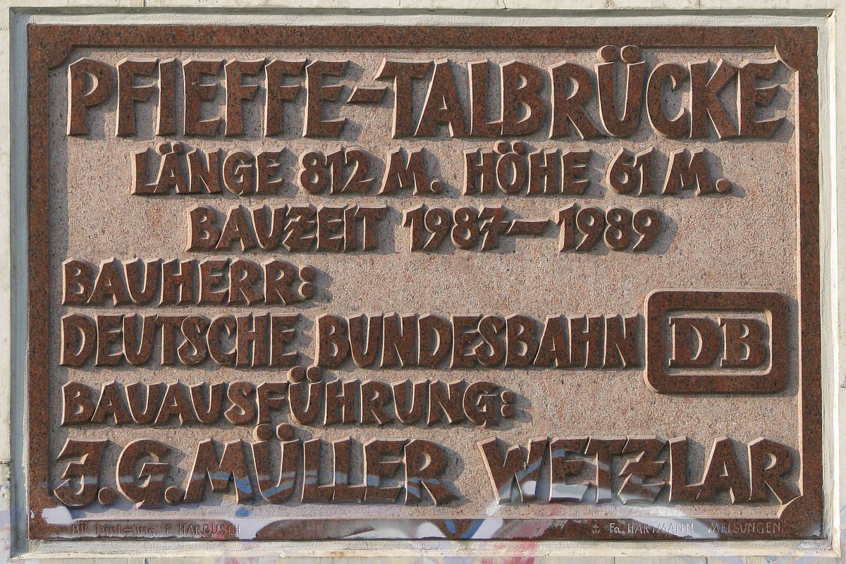 A plaque at Pfieffetal bridge, near Melsungen, Hesse, Germany